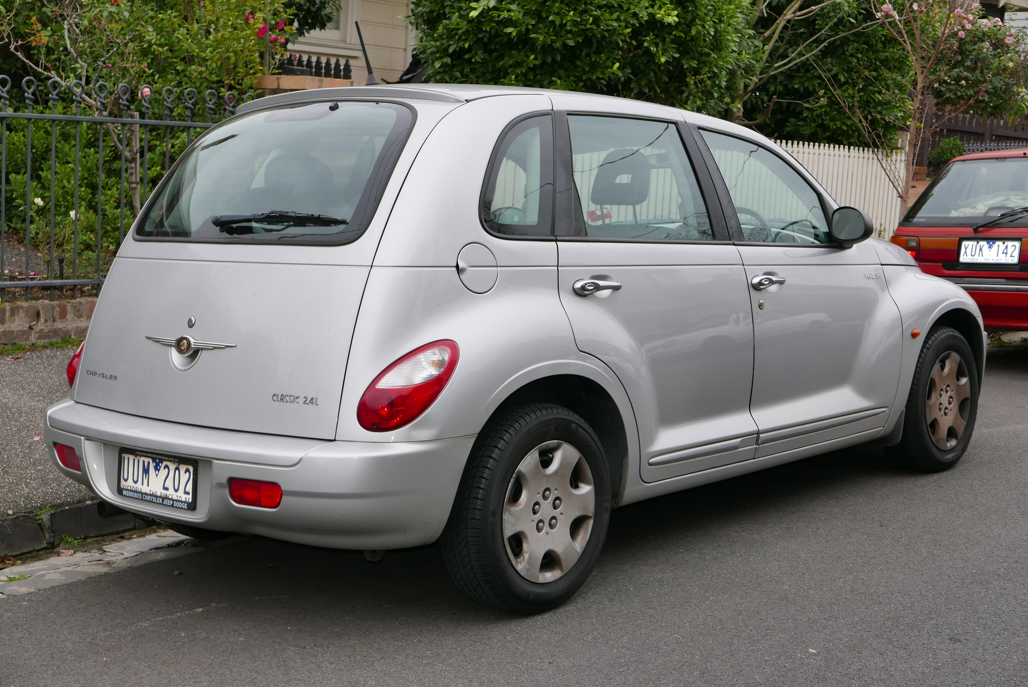 2007 Chrysler PT Cruiser (PG MY07) Classic hatchback. Photographed in Kew, Victoria, Australia. Vehicle registration enquiry resultsJurisdictionVictoriaRegistrationUUM202Chassis code1A8F4N8B97T515338Engine code7T515338Compliance date2007-05Year of manufacture2007